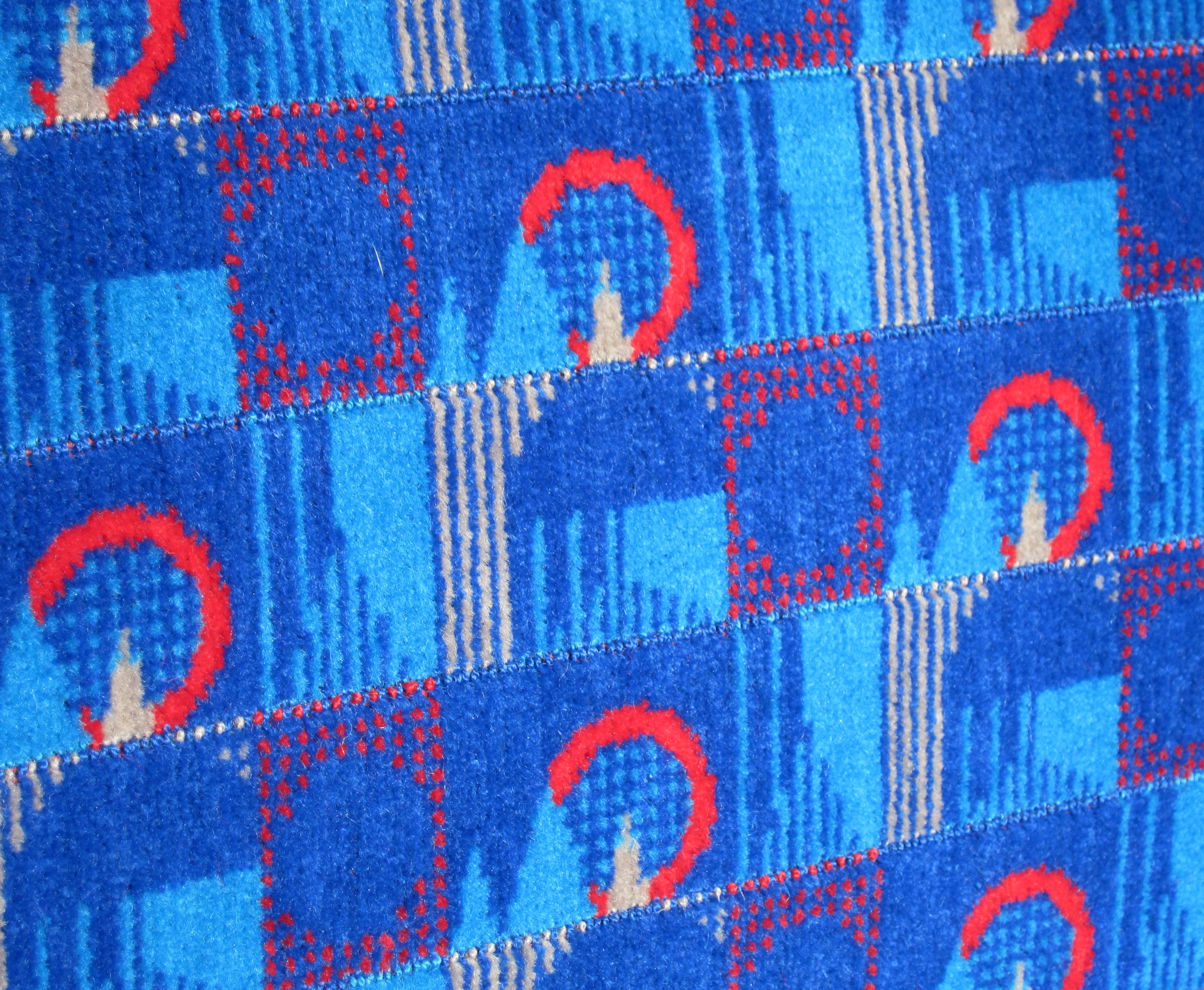 The "Barman" design of Transport for London seat covering fabric (moquette). Designed by WallaceSewell, according to TfL, "WallaceSewell's starting point was London landmarks which were turned into abstract primary shapes like circles, triangles and squares allowing customers to interpret the pattern as they wish." It was named after Christian Barman, who commissioned the first moquettes for the London Underground in 1936. It was unveiled in 2011, being first used on refurbished Central Line trains. This image was taken in Haven Green, Ealing, not on a tube train, but when the fabric was fitted to one of the upper deck seats on the prototype New Bus for London LT1 (reg. LT61 AHT) during it's tour around the city for public viewings, prior to entering trial revenue earning service on route 38. The rest of the bus, and the rest of the fleet, uses a specially designed red themed moquette, with 3 different designs used in different parts of the bus.